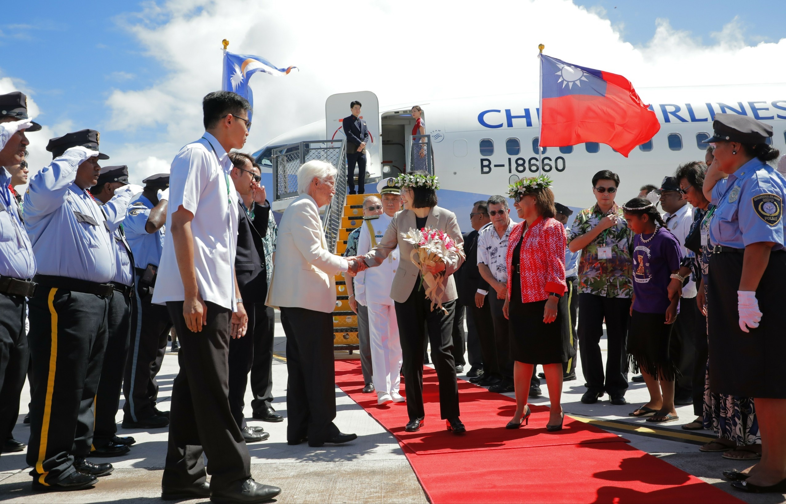 President Tsai and Marshall Islands President Heine. (2017/10/30) 授權方式及範圍：中華民國總統府│政府網站資料開放宣告 Authorization Method & Scope: Office of the President, Republic of China (Taiwan) | Government Website Open Information Announcement